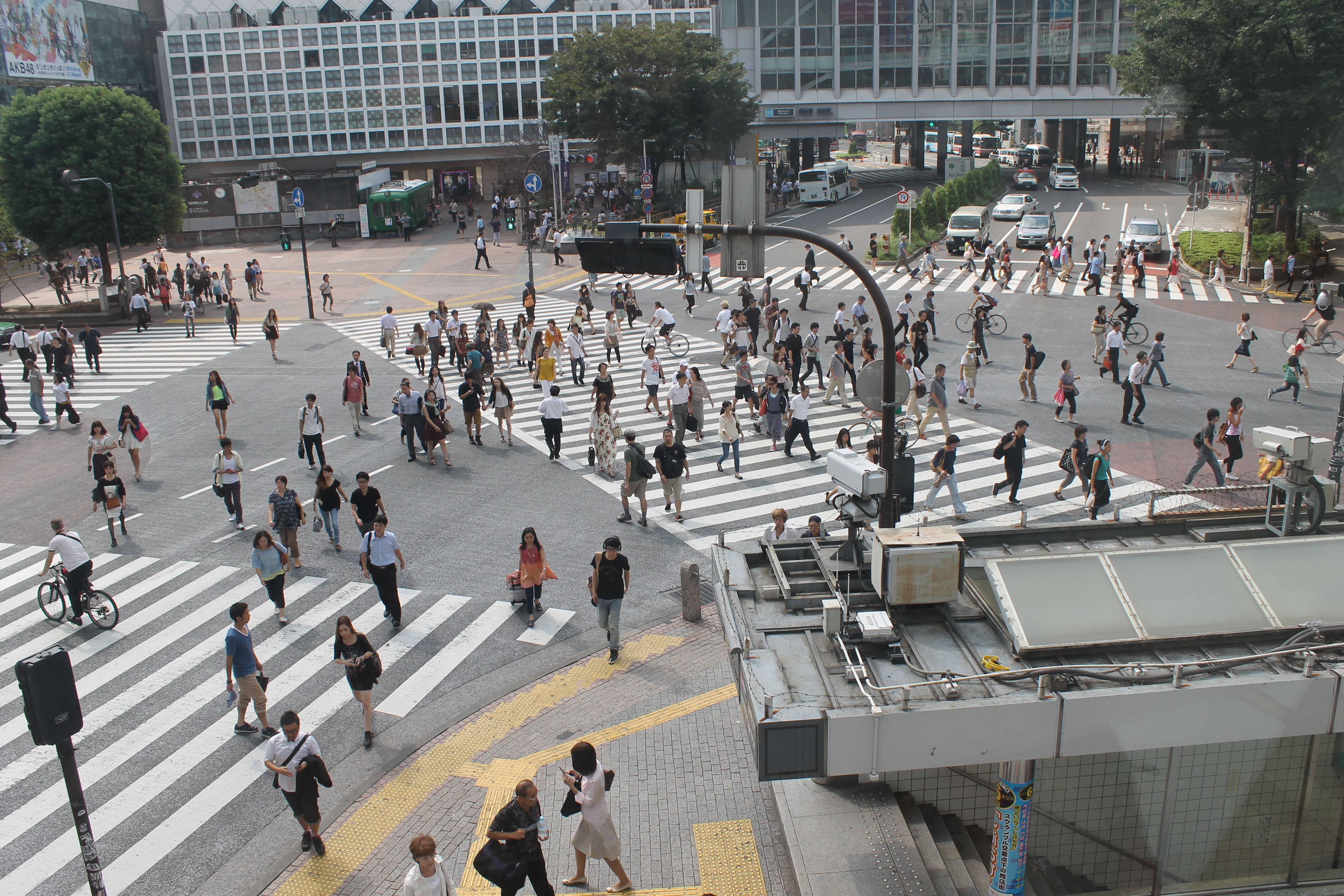 Shibuya Station as viewed from Starbucks